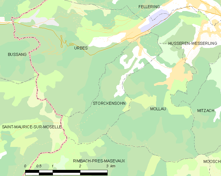 Map of French municipality